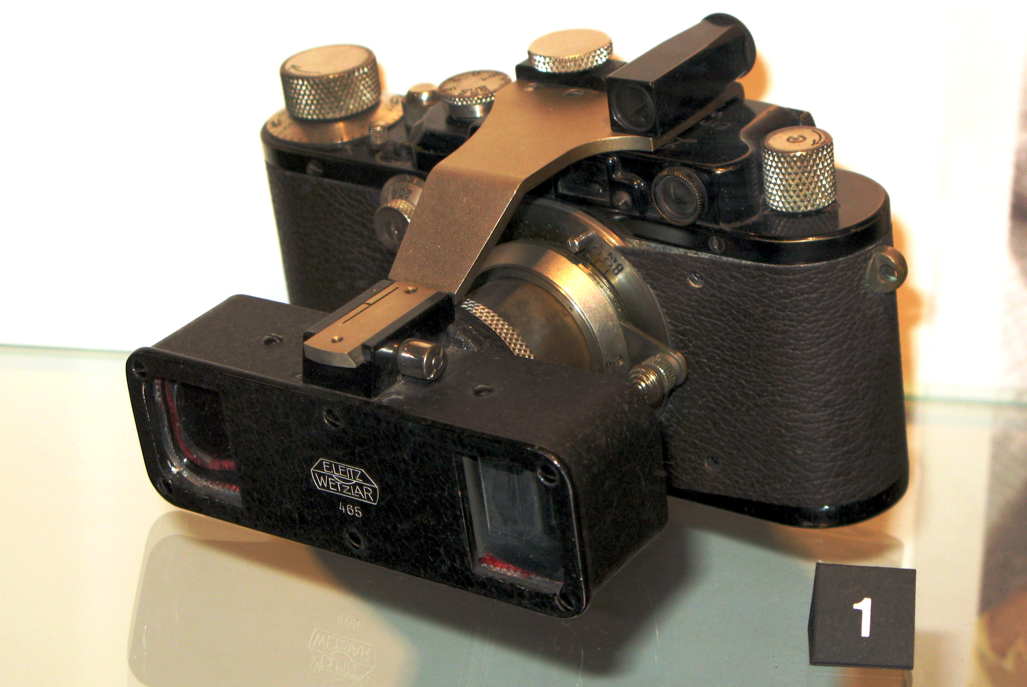 Leica III on display at Vevey photography museum